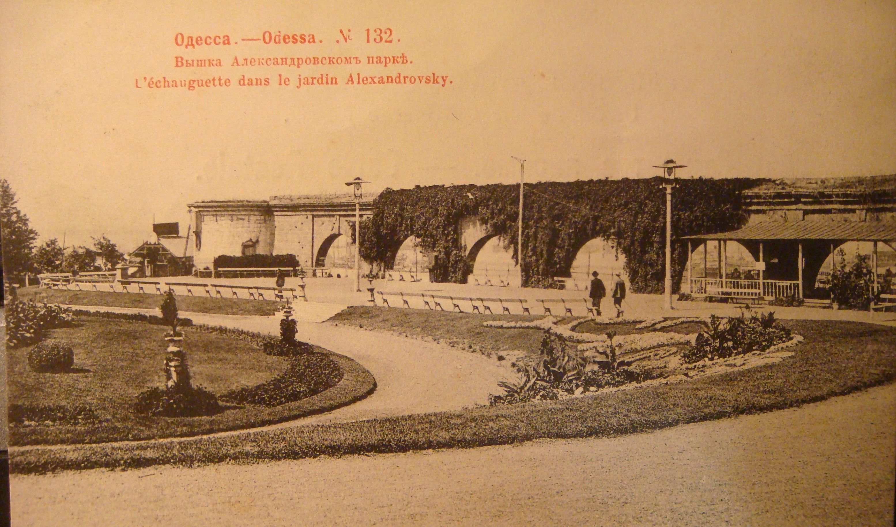 Old Carte Postale with view of Alexander Park in Odessa, Russia